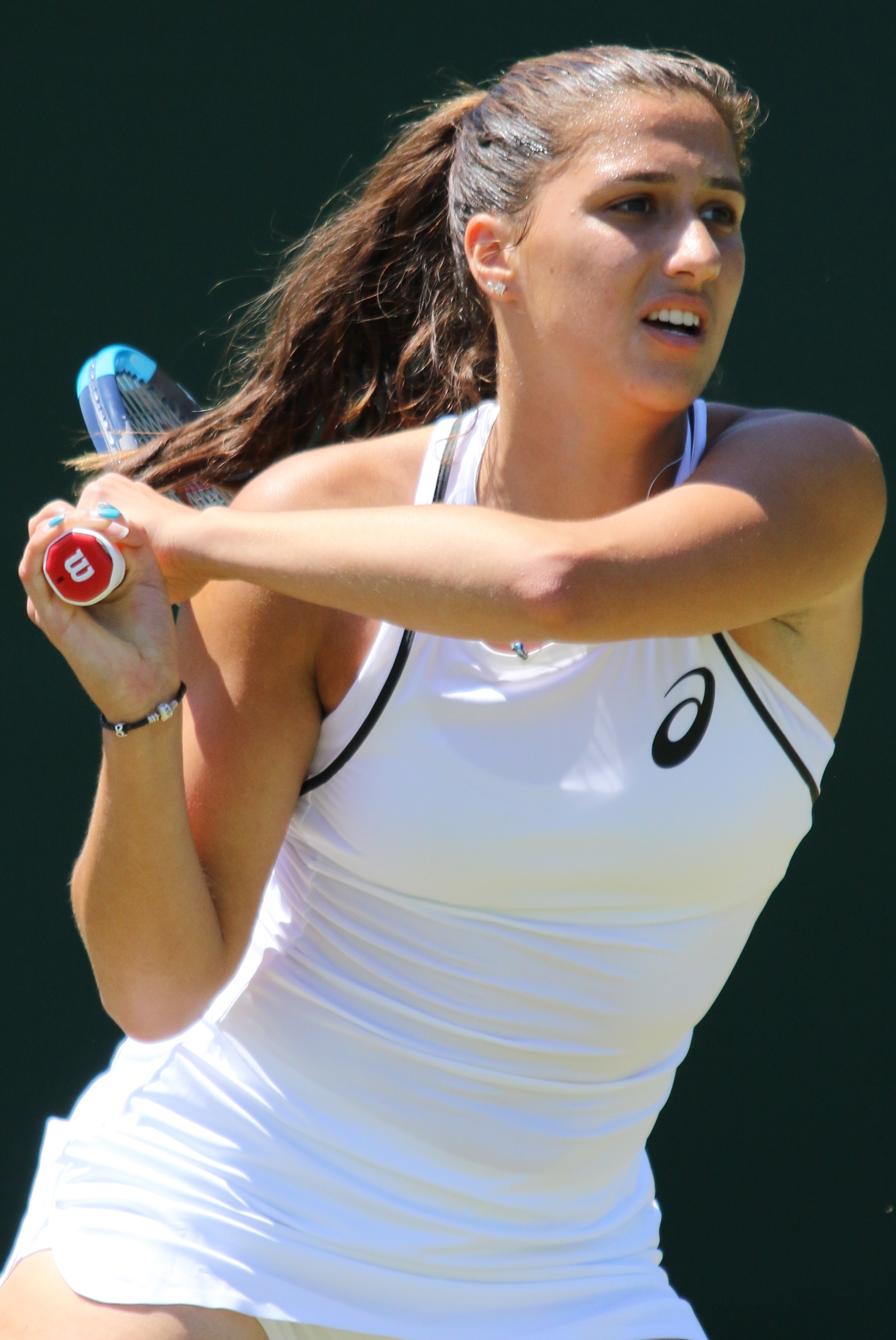 Fourlis WMQ18 (27)